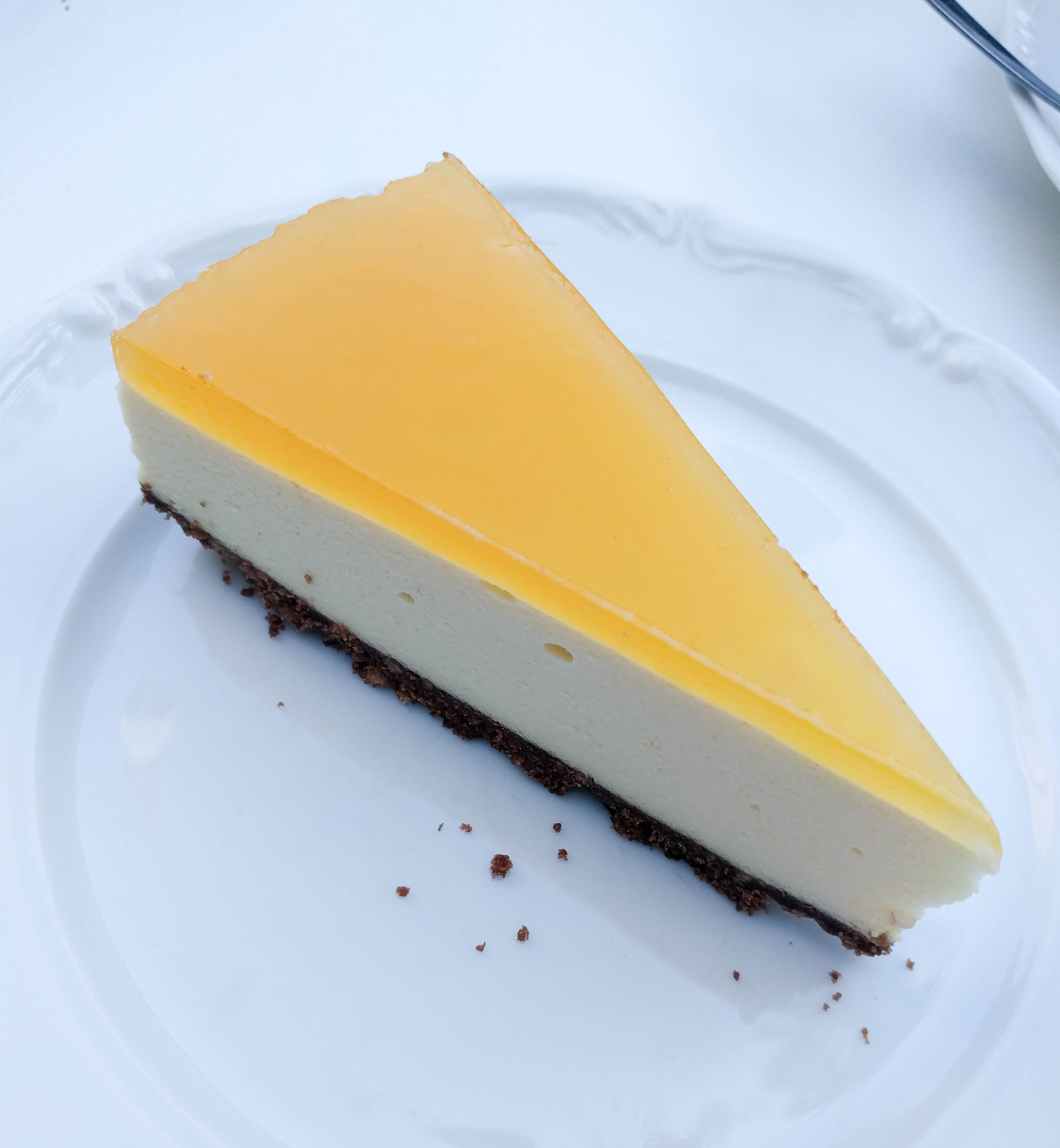 Passion fruit cheesecake